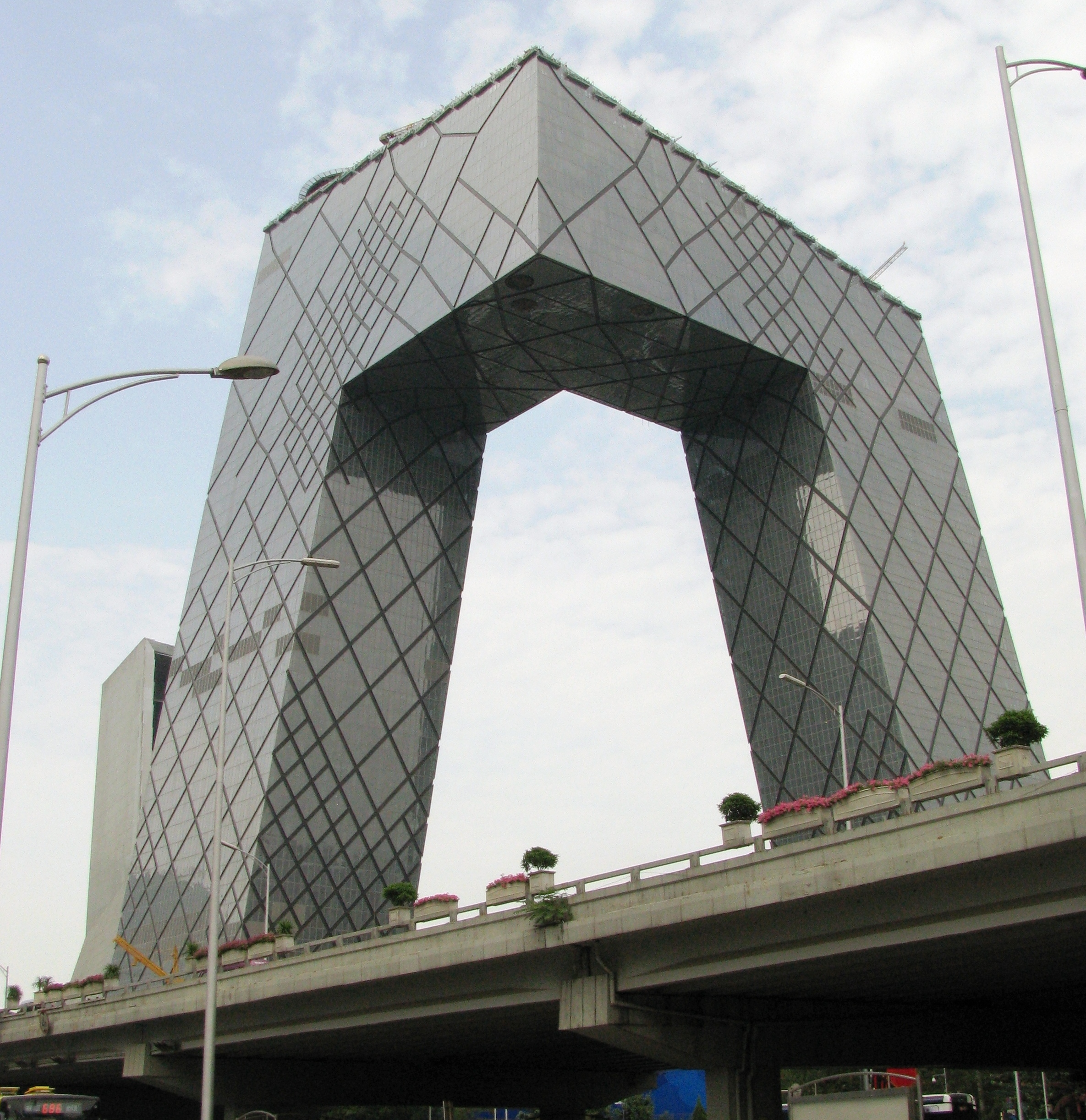 CCTV new building外号：大裤衩.